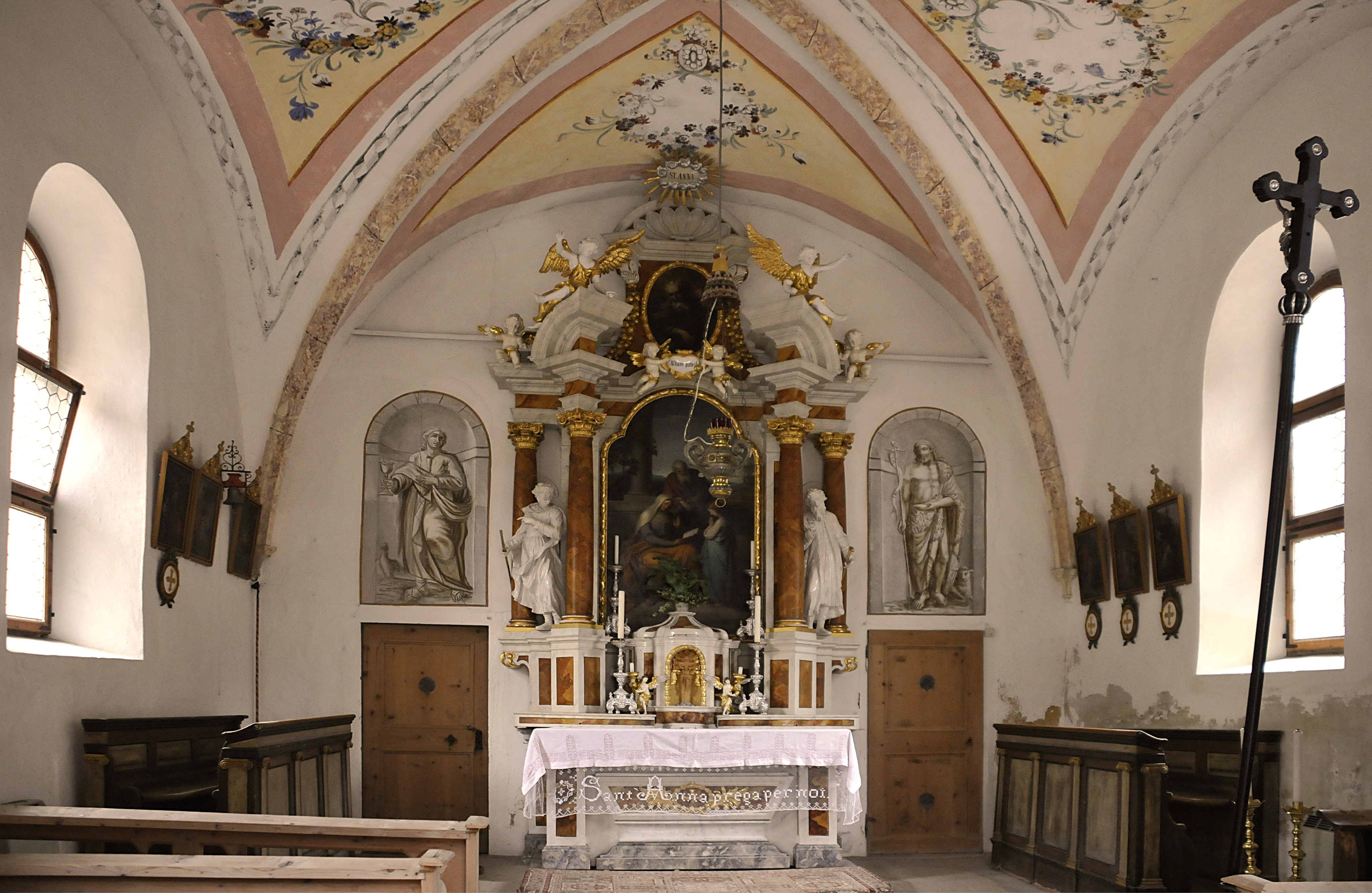 Saint Ann's church in the monumental cemetery of Urtijei